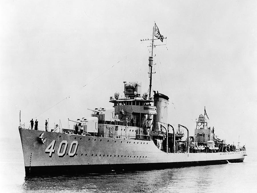 The U.S. Navy destroyer USS McCall (DD-400) underway at the time of completion, circa 1938. Note the flag flying from her foremast peak.